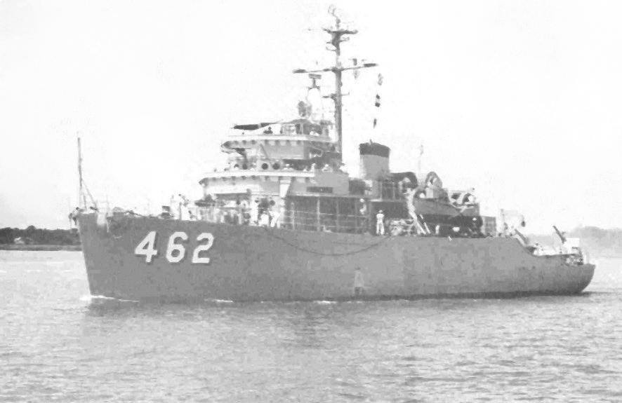 The U.S. Navy minesweepers USS Pinnacle (MSO-462) underway, circa 1965.